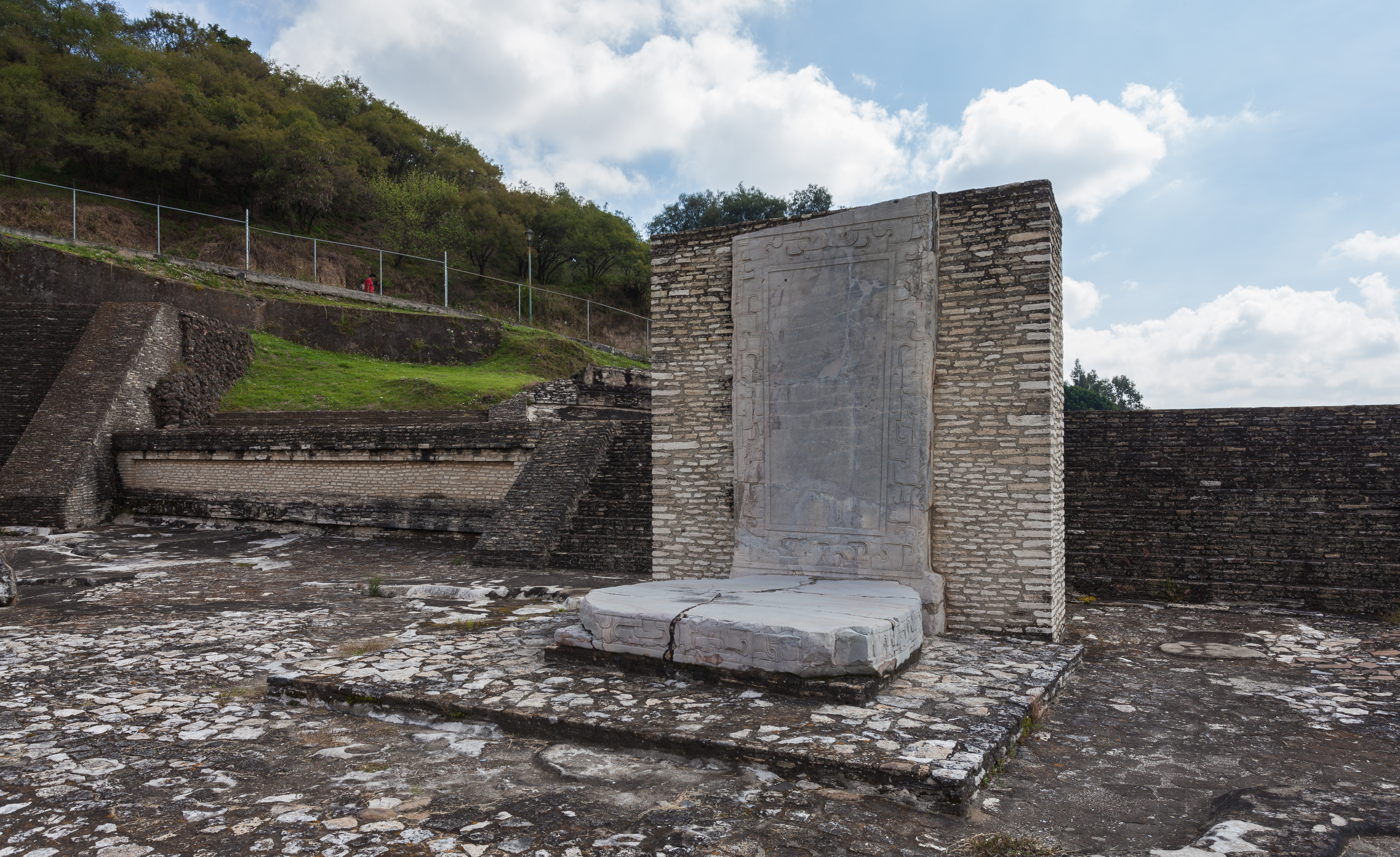 Great Pyramid of Cholula, Puebla, Mexico